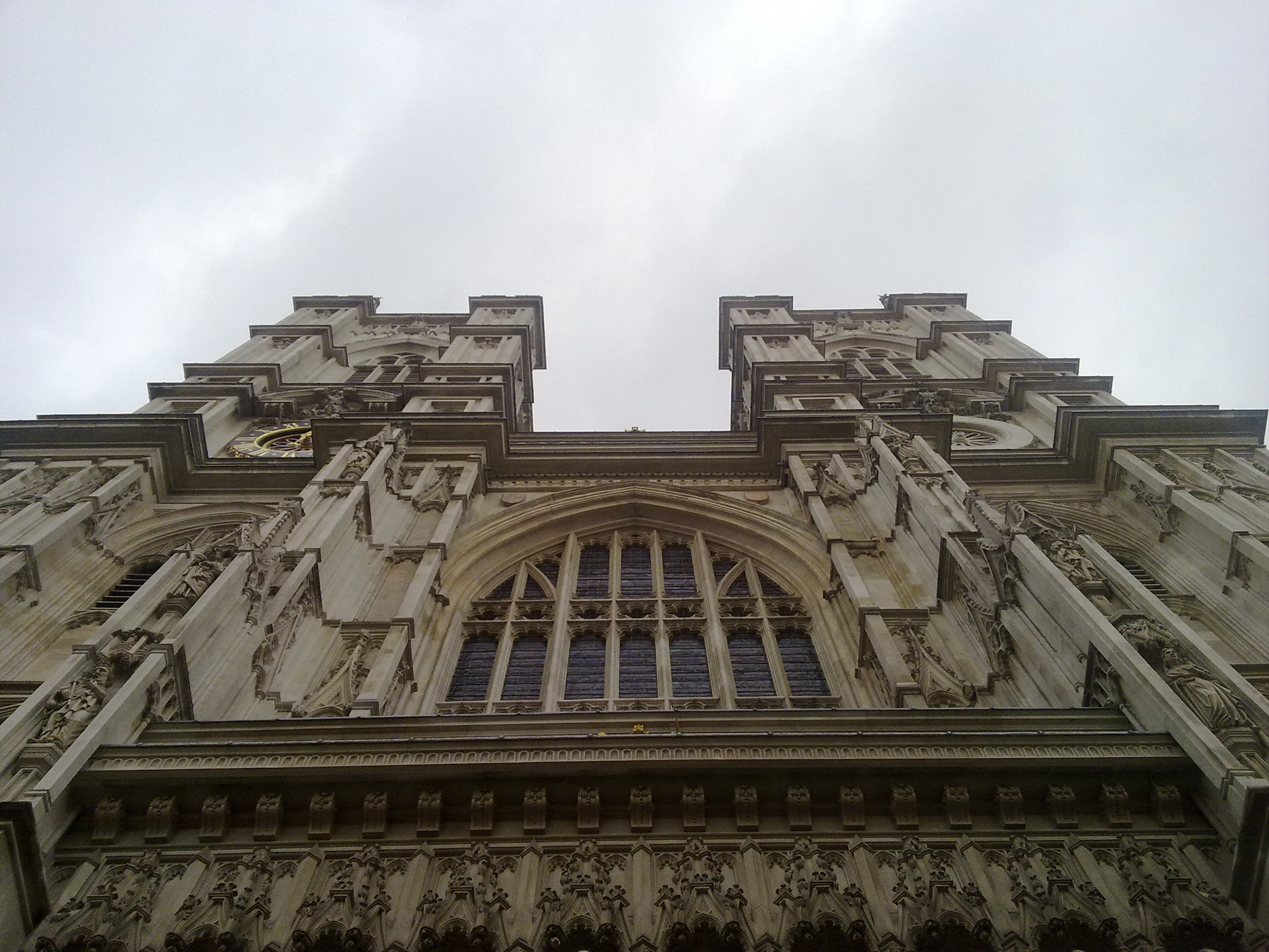 The west face (and ceremonial exit) of Westminster Abbey, facing Victoria Street.